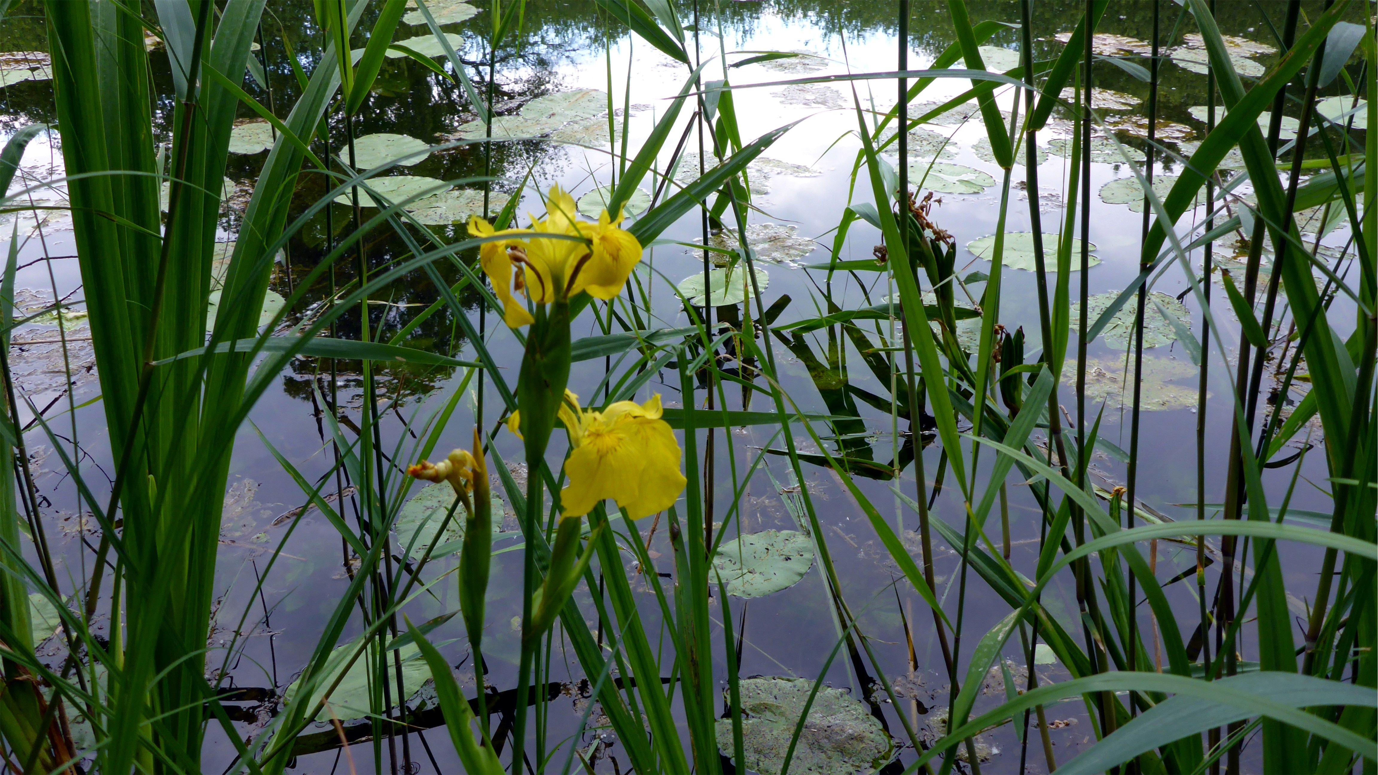 Landschaftsschutzgebiet „Rheinaue nördlich von Karlsruhe“ is a Protected landscape area in Baden-Württemberg, Germany.